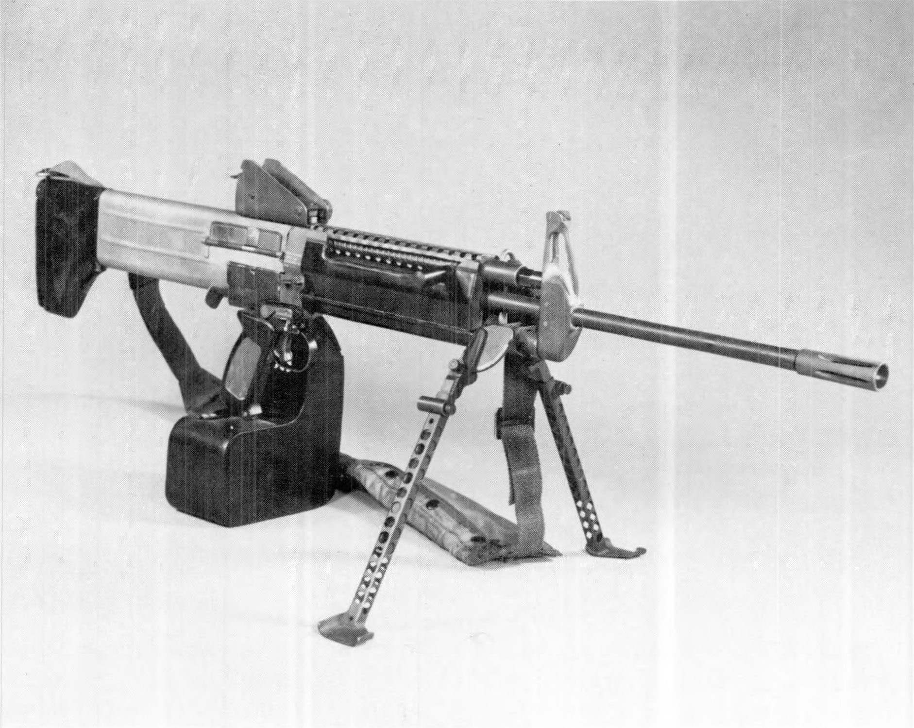 MACHINE GUN, SQUAD AUTOMATIC WEAPON (SAW), 5.56MM, XM235 ADVANCED DEVELOPMENT PROTOTYPE